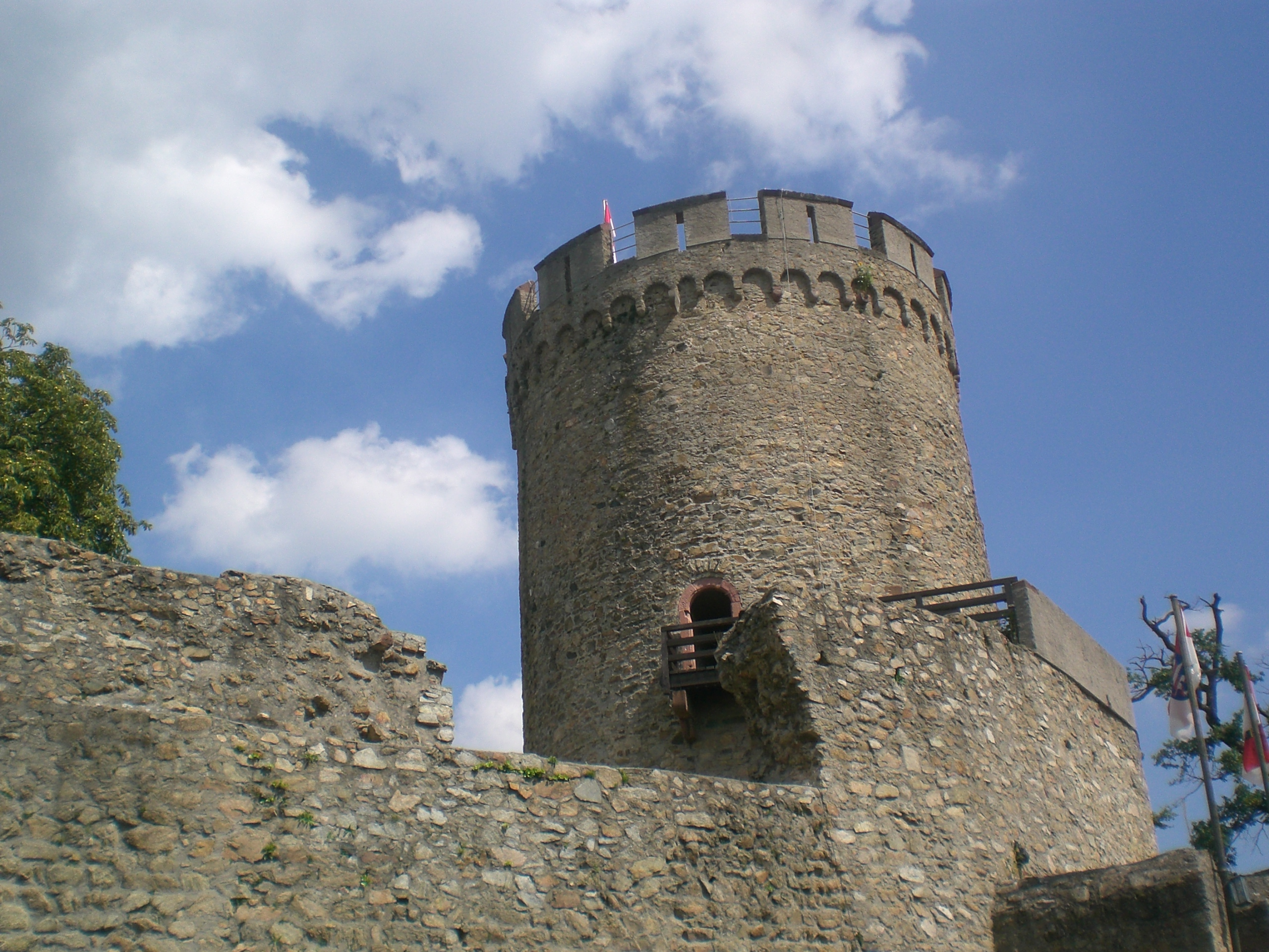 tower of the castle of Alsbach, Bergstraße (Germany)